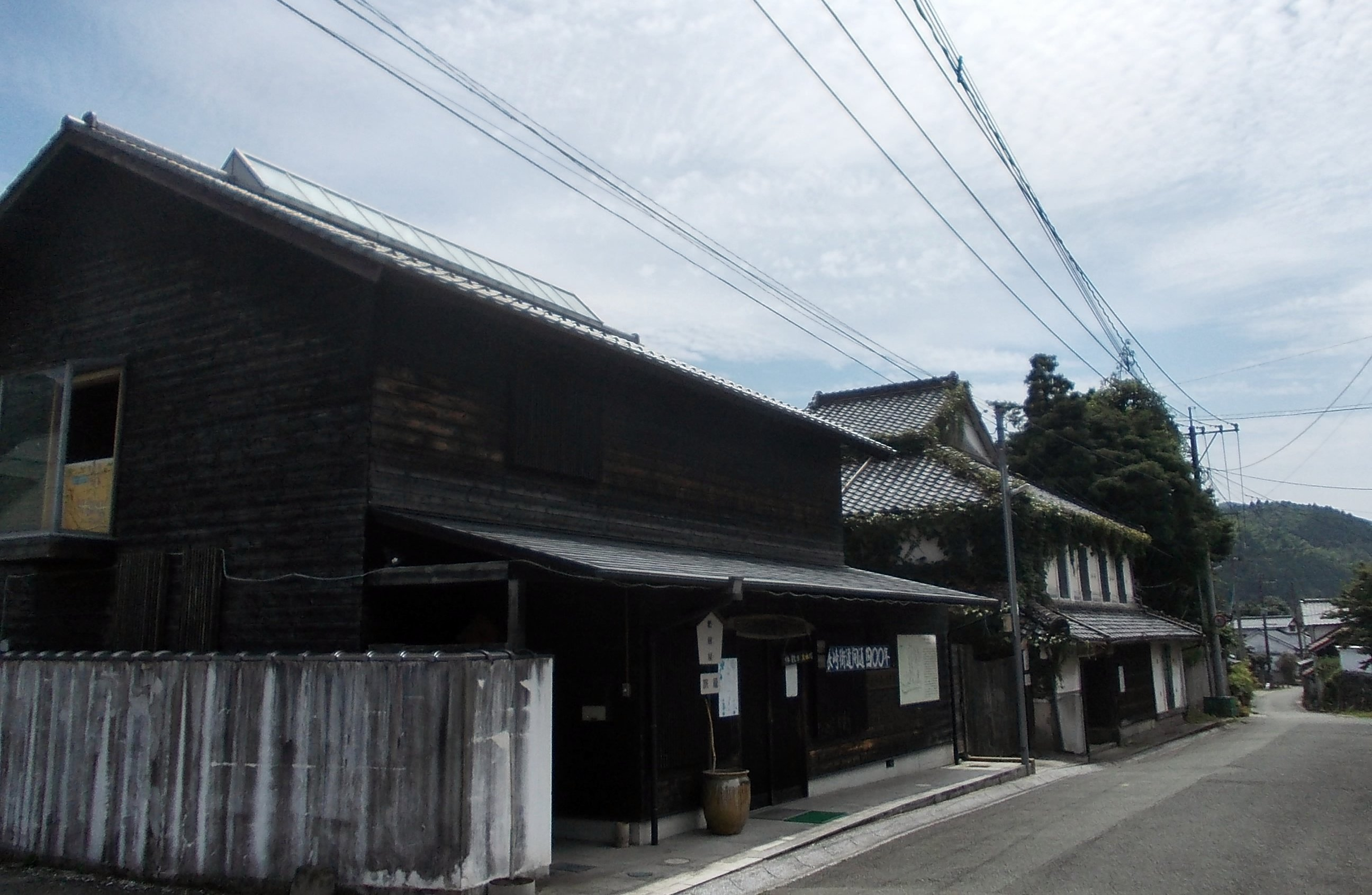 The old Nagasaki Kaido Uchino-shuku in Iizuka, Fukuoka, Japan. The Kokura-ya house was doing a business for money exchange during the Edo era. It still remains the vestige of the old house heavily along with the old highway.